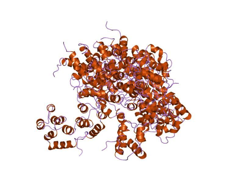 Cartoon representation of the molecular structure of protein registered with 3crd code.